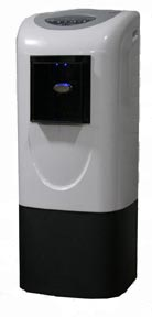 Everest Water Yeti AC-12 atmospheric water generator